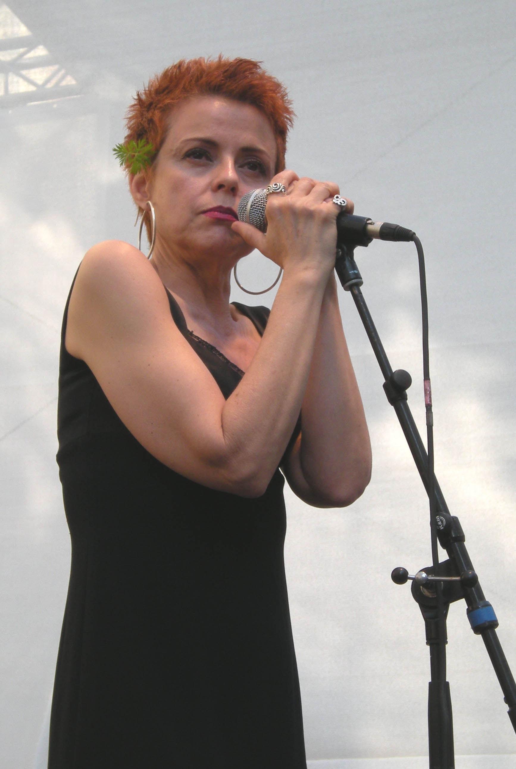 'Jamming Europe' session at Vienna's annual Stadtfest, 2009. Besides vocalist Anna Clementi performed: Mia Zabelka (violin) Jon Sass (tuba) Hanno Leichtmann (percussions) Hannes Strobl (guitar, bass) Note: Camera time is set on UTC, which is local time -2.